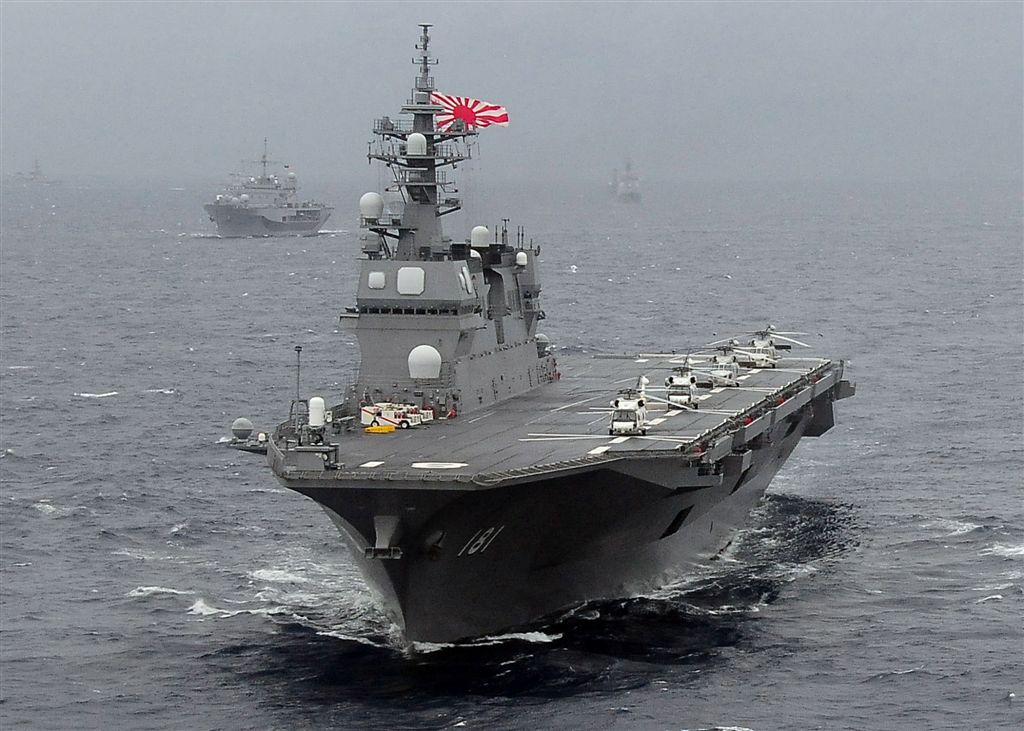 PACIFIC OCEAN (Nov. 17, 2009) - JS Hyuga (DDH 181) steams in front of a 26 ship formation photo exercise. USS George Washington (CVN 73), the Navy's only permanently forward-deployed aircraft carrier participated in a photo exercise which was the culmination of ANNUALEX 21G, the largest annual bilateral exercise with the U.S. Navy and the Japan Maritime Self Defense Force. (U.S. Navy photo by Mass Communication Specialist 1st Class John M. Hageman/RELEASED) Nikon D300